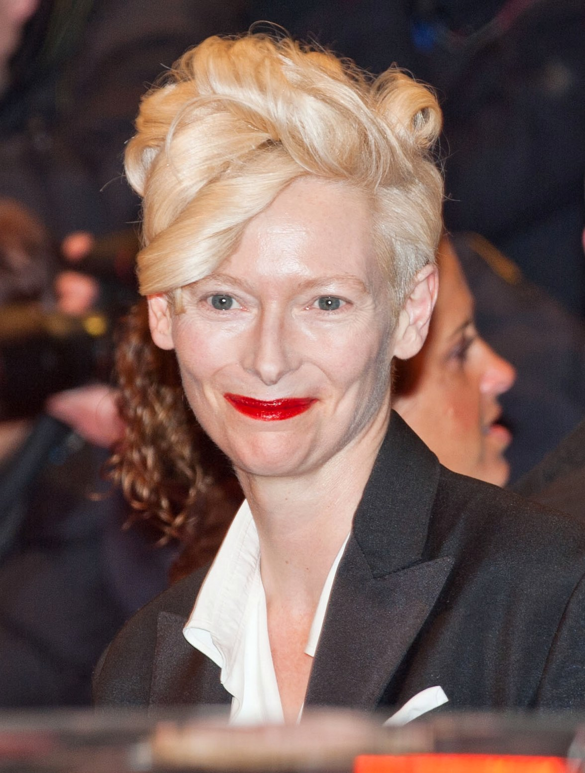 Tilda Swinton at the opening of the 64th Berlin International Film Festival on February 6, 2014.